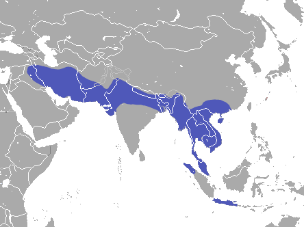 Small Asian Mongoose (Herpestes javanicus) range